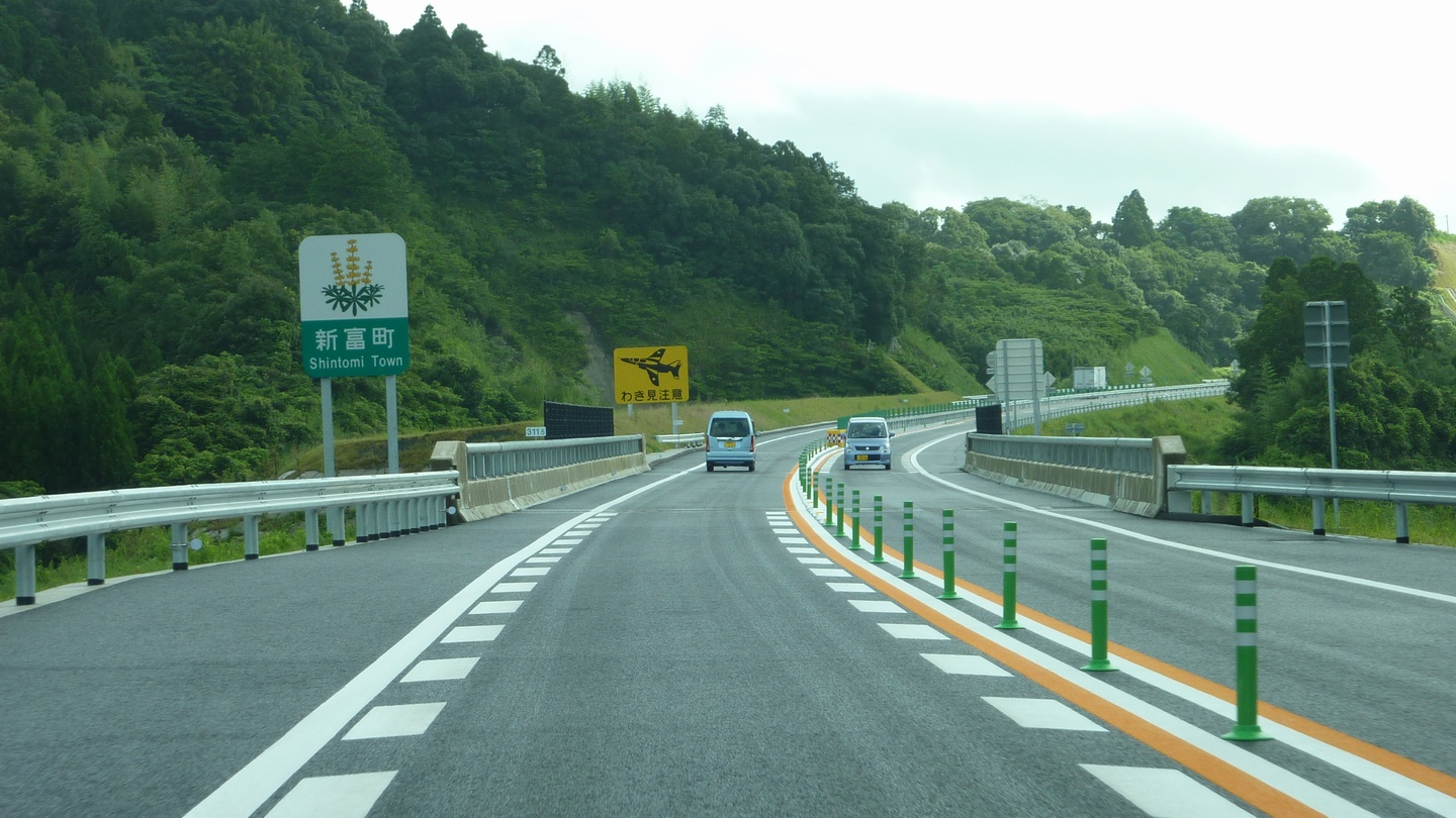 The Higashi-Kyushu Expressway in Shintomi Town, Miyazaki Prefecture, Japan.